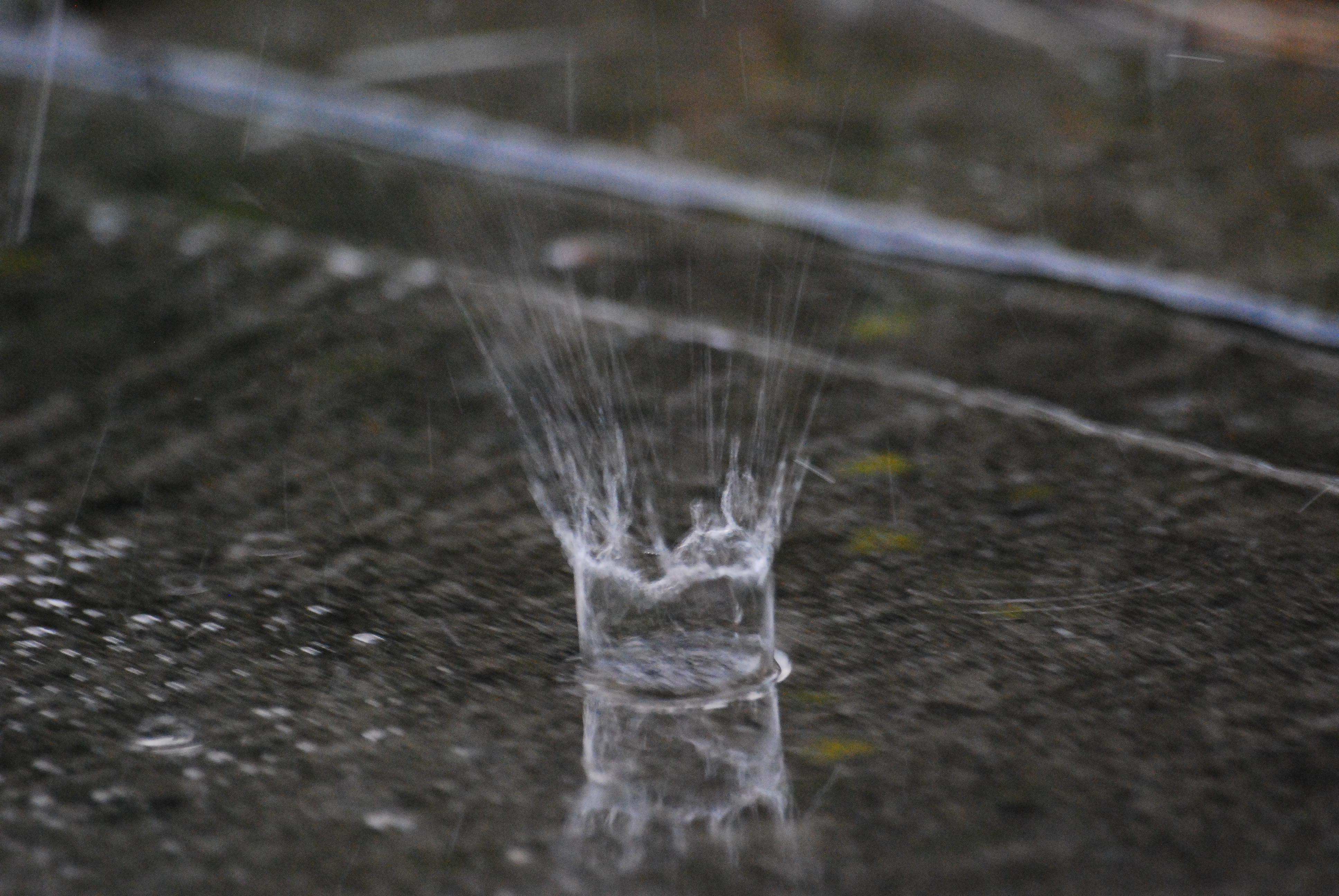 I wanna know, have you ever seen the rain I wanna know, have you ever seen the rain Comin' down on a sunny day? -Creedence Clearwater Revival June 11 163/366